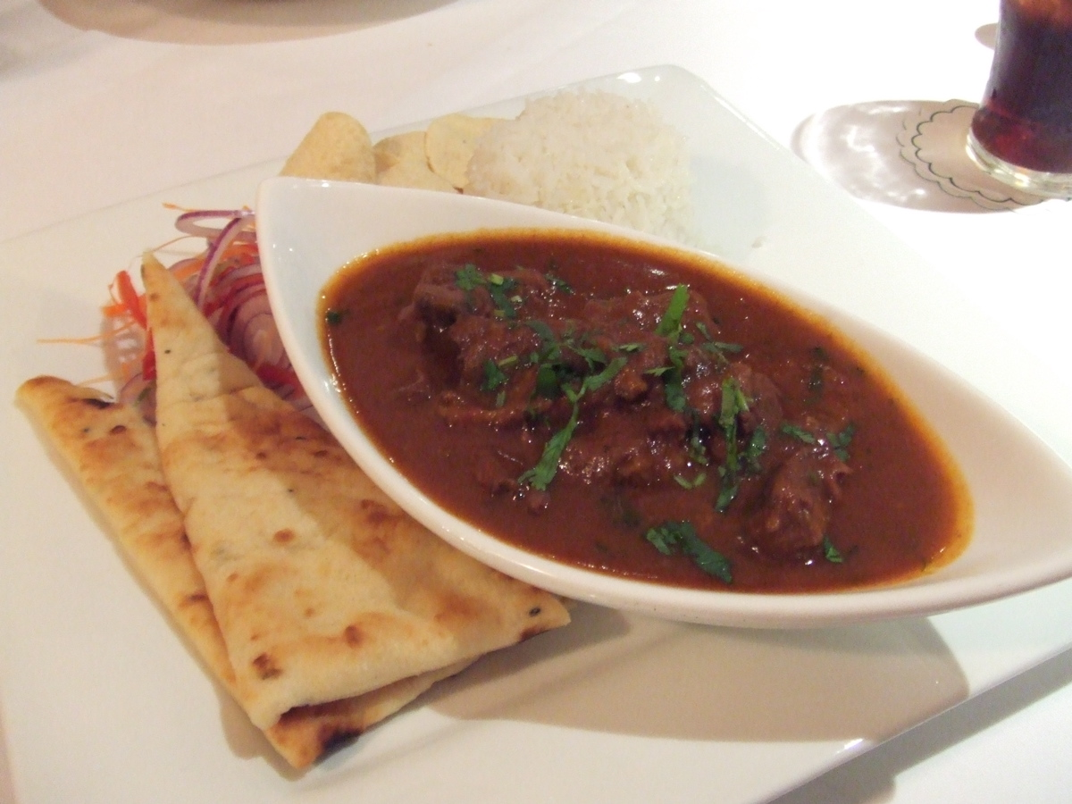 curry: Rogan Josh